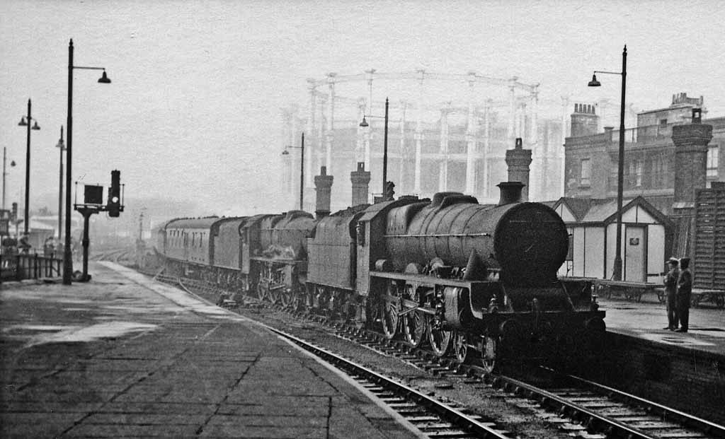 Double-headed espress entering St Pancras Station. View northward from Platforms 5/6 - wintry scene. An express from Manchester (Central) arriving at Platform 7, headed by LMS 'Jubilee' 6P 4-6-0 No. 45559 'British Columbia' piloting Stanier 5MT 4-6-0 No. 45254. The famous gas-holders can be glimpsed behind - how utterly different from present-day was the scene in 1960.